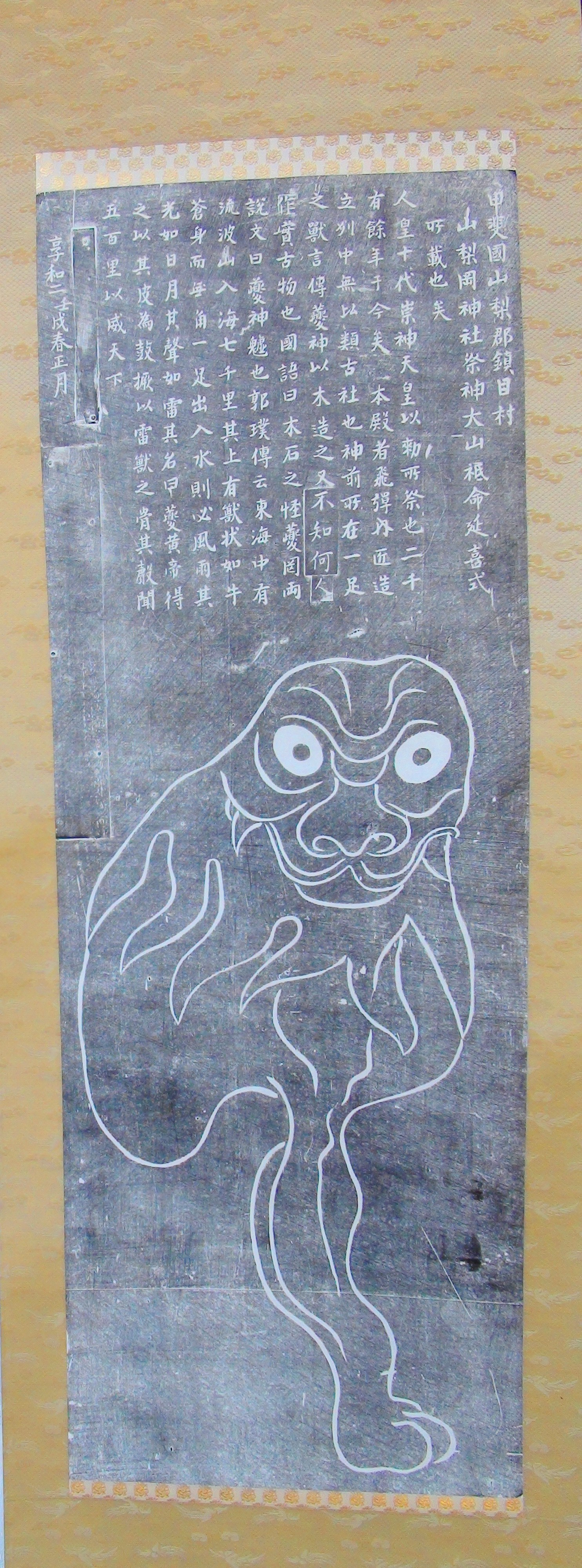 KINOKAMI Legendary creatures Yamanashi-oka shrine